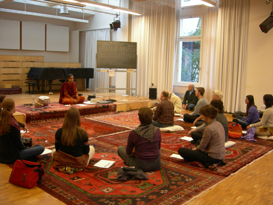 Workshop for the Ali Akbar College of Music, Basel, Switzerland.